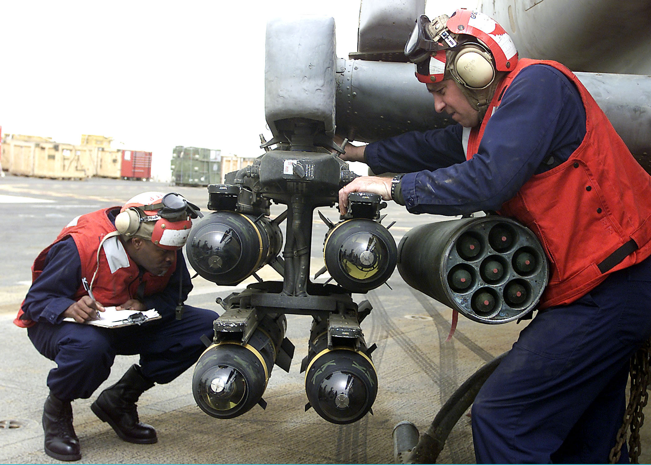 The Arabian Gulf (Mar. 27, 2003) -- SSgt. Lorienzo Garner of Orangeburg, S.C., and GySgt. Greg Scott of Centralia, Ill., inspect live ordnance on an AH-1W Super Cobra before flight operations aboard the amphibious assault ship USS Saipan (LHA 2). Saipan is deployed in support of Operation Iraqi Freedom, the multi-national coalition effort to liberate the Iraqi people, eliminate Iraq’s weapons of mass destruction, and end the regime of Saddam Hussein. U.S. Navy photo by Photographer’s Mate 3rd Class Robert M Schalk. (RELEASED)